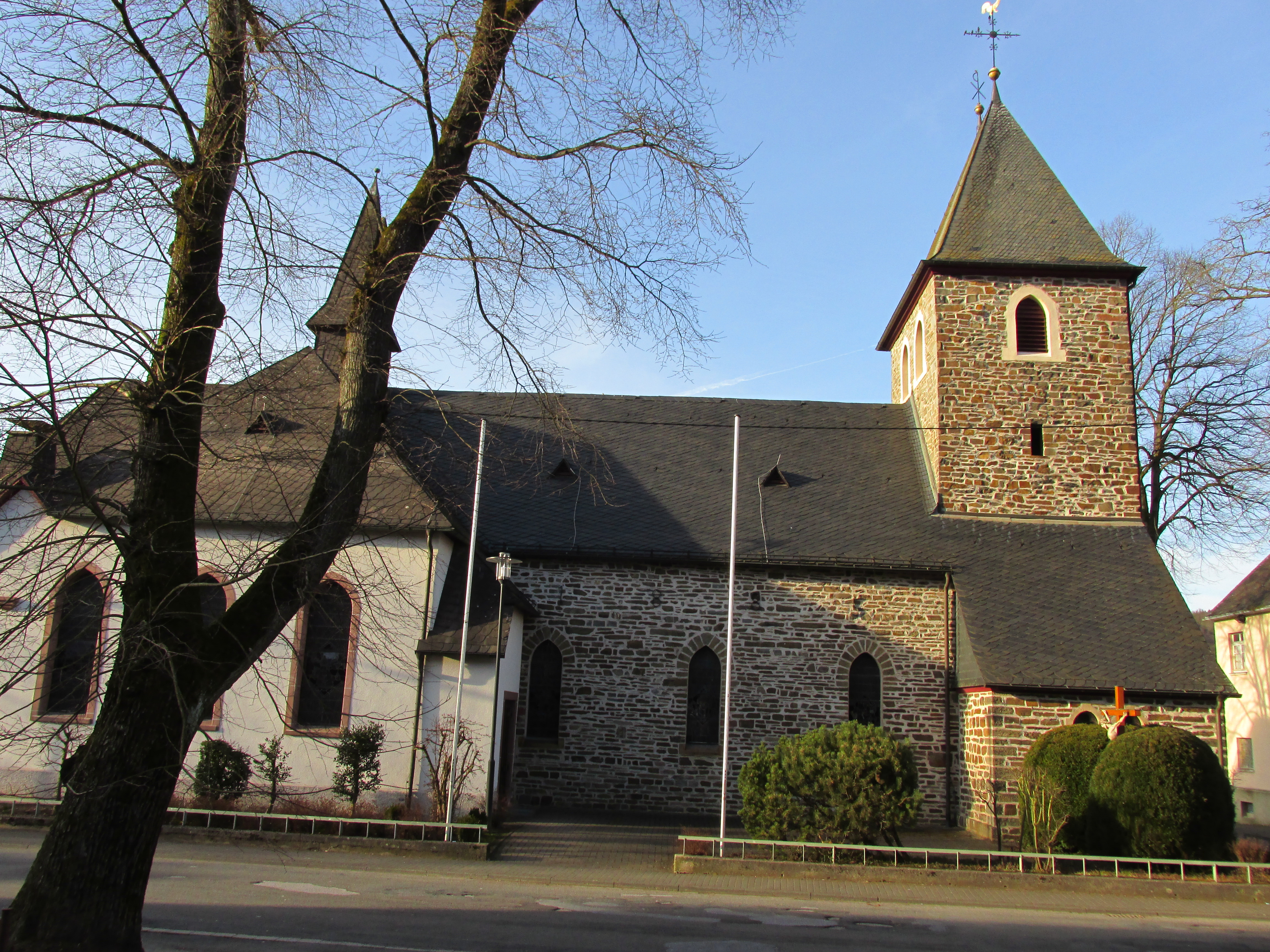 St. Agatha church, Maumke, Lennestadt, Germany check usage